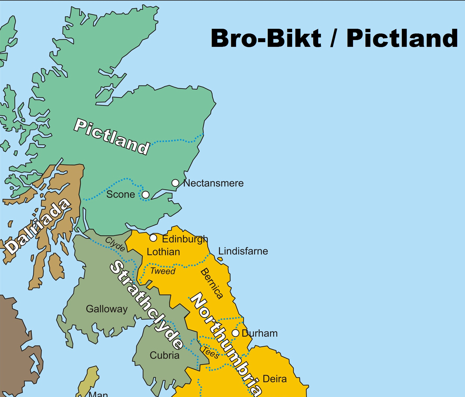 Map of Pictland around 800. Made upon another map.